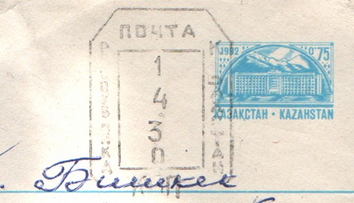 Provisional stamp of Aktau, Kazakhstan, 1993.